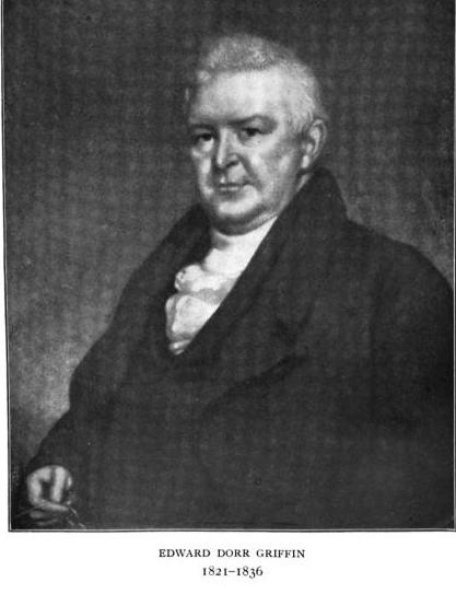 Edward Dorr Griffin (January 6, 1770 – November 8, 1837) was a Christian minister and an American educator who served as President of Williams College from 1821 to 1836 and served as the first pastor of Park Street Church from 1811 to 1815.